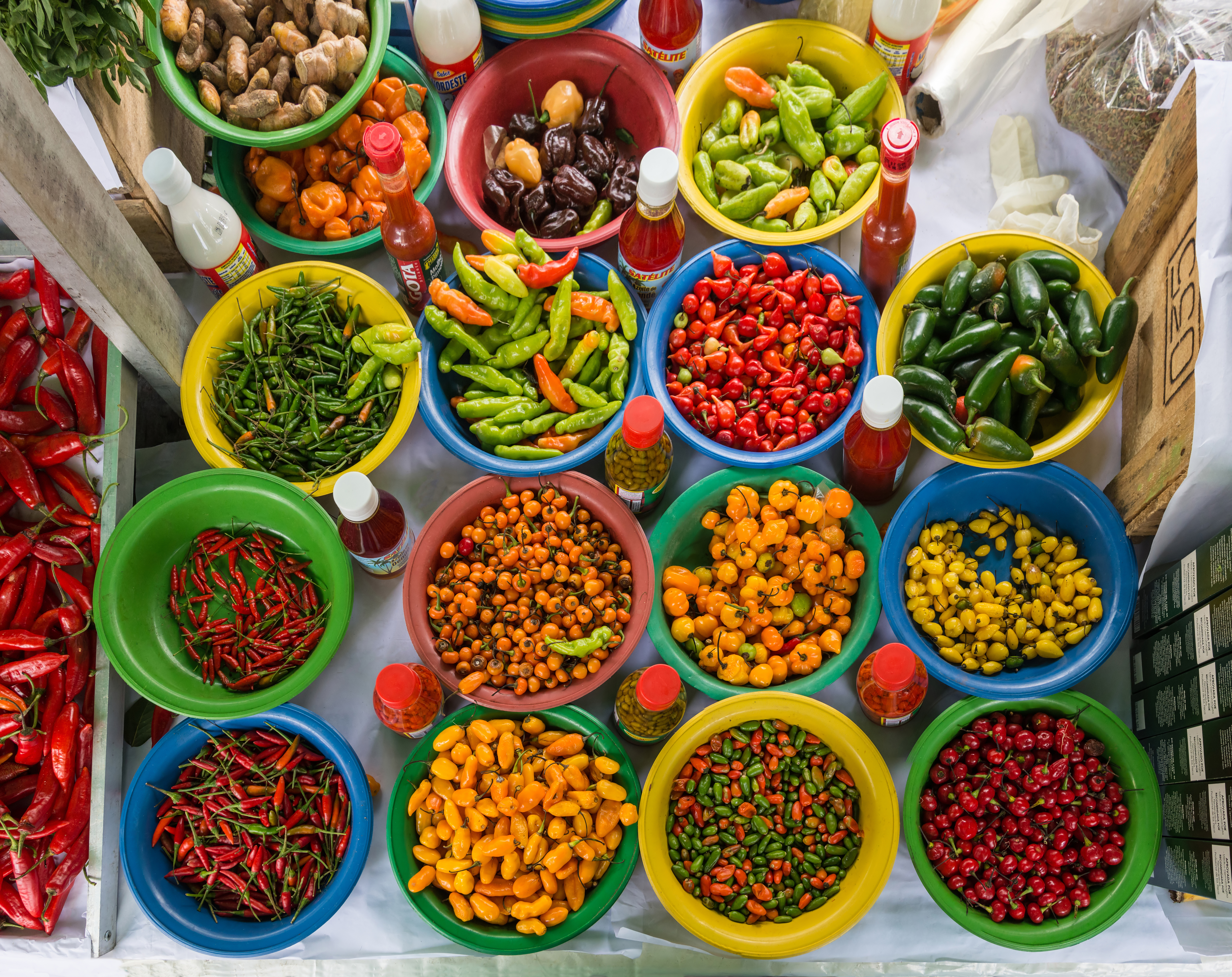 Capsicum baccatum in Saúde flea market, São Paulo, Brazil